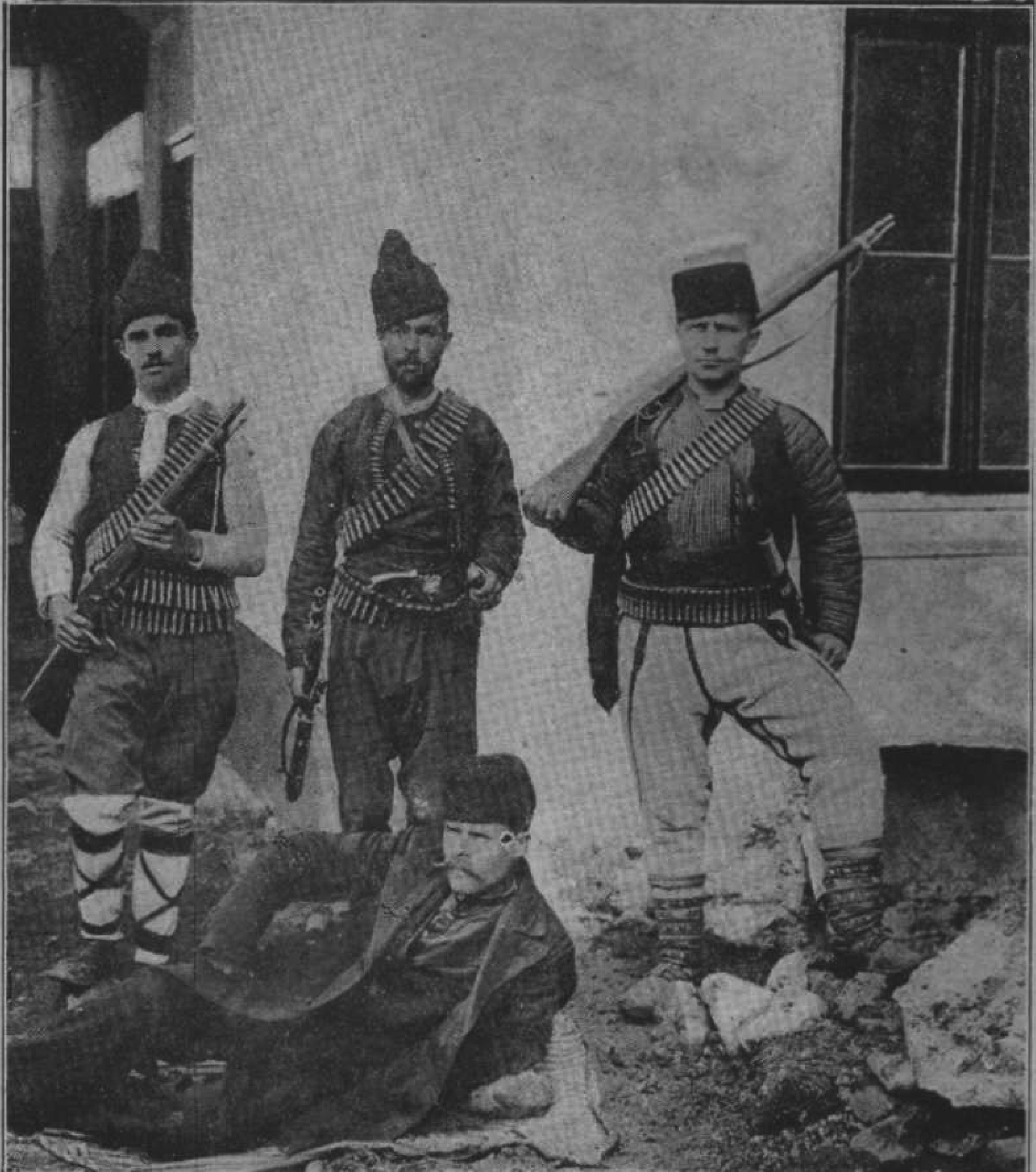 Jordan Piperkata with friends